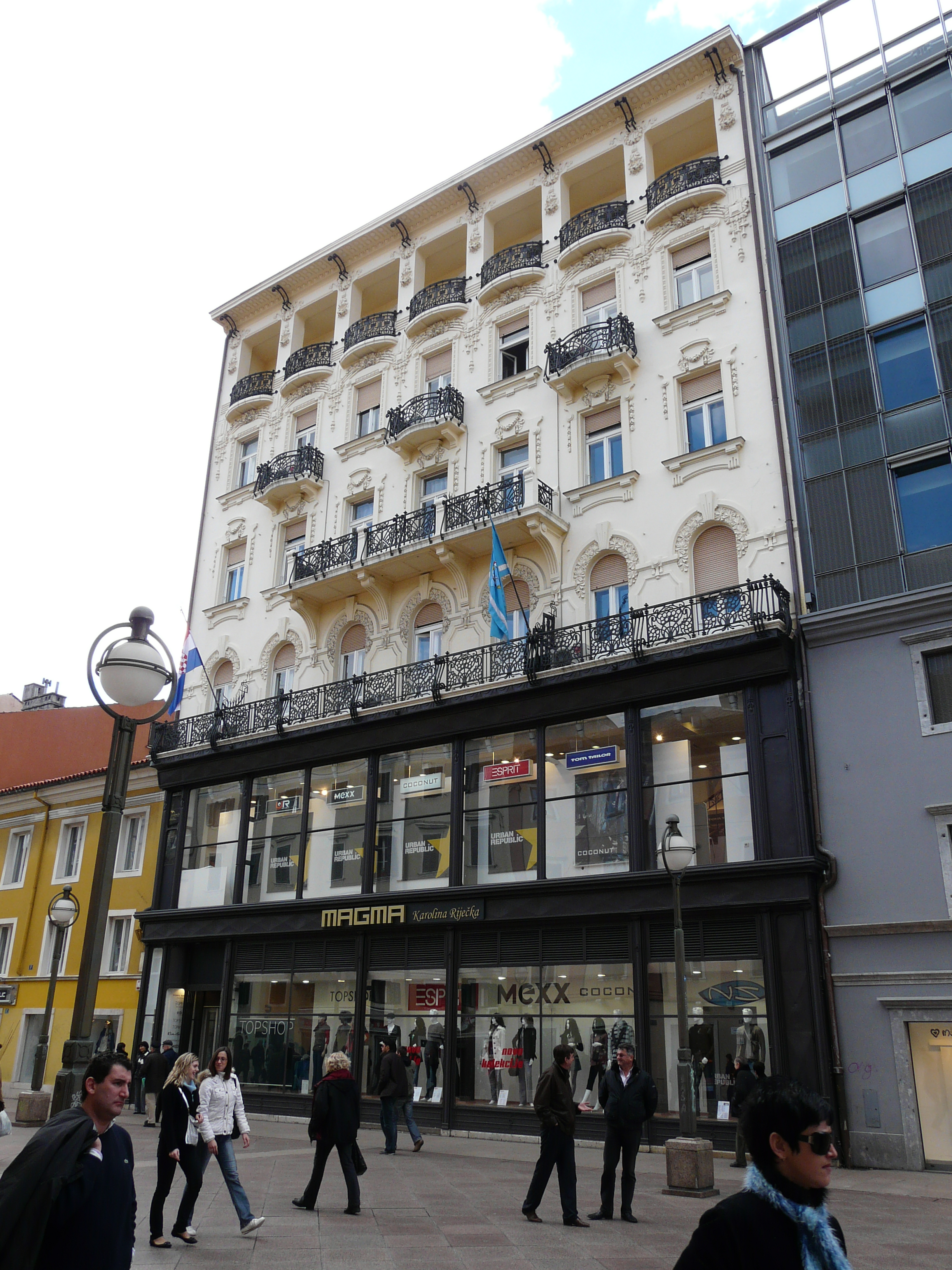 Karolina Riječka commercial centre on Korzo street